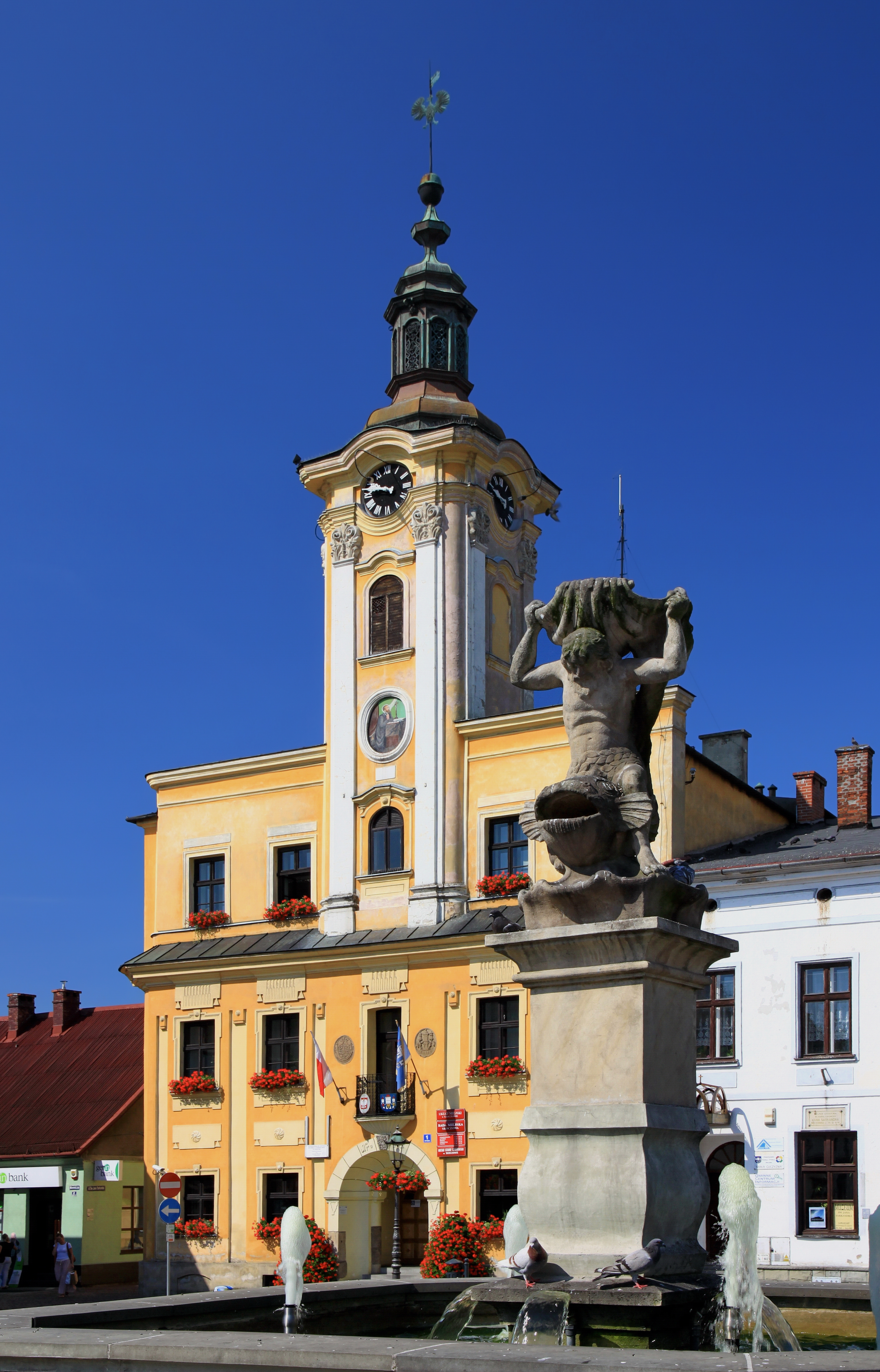 Skoczów, town hall, build in 1797-1801, 1934